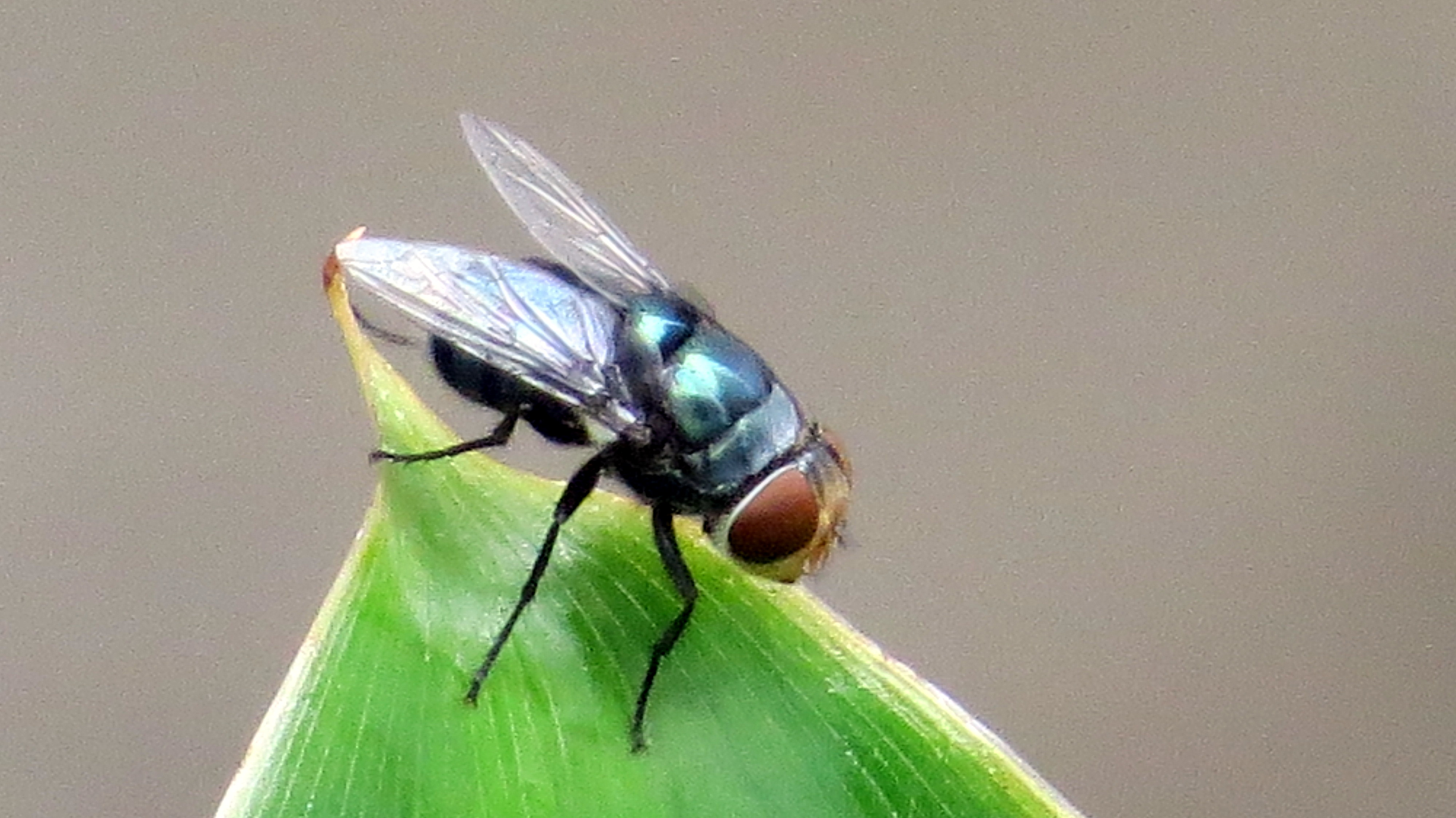 Housefly